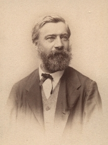 Carl Friedrich Eduard Dämel (1822-1900), German entomologist